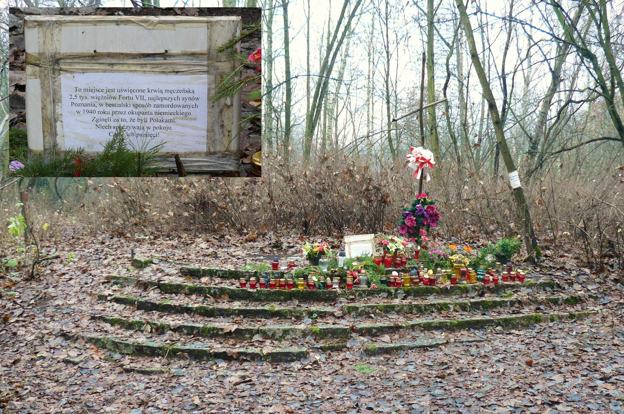 Poznan, Rusalka Lake.